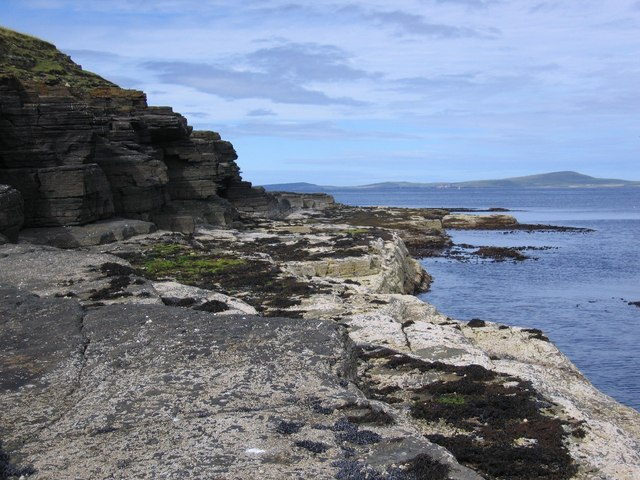 Cliffs in Saviskaill Bay on the northern side of Rousay